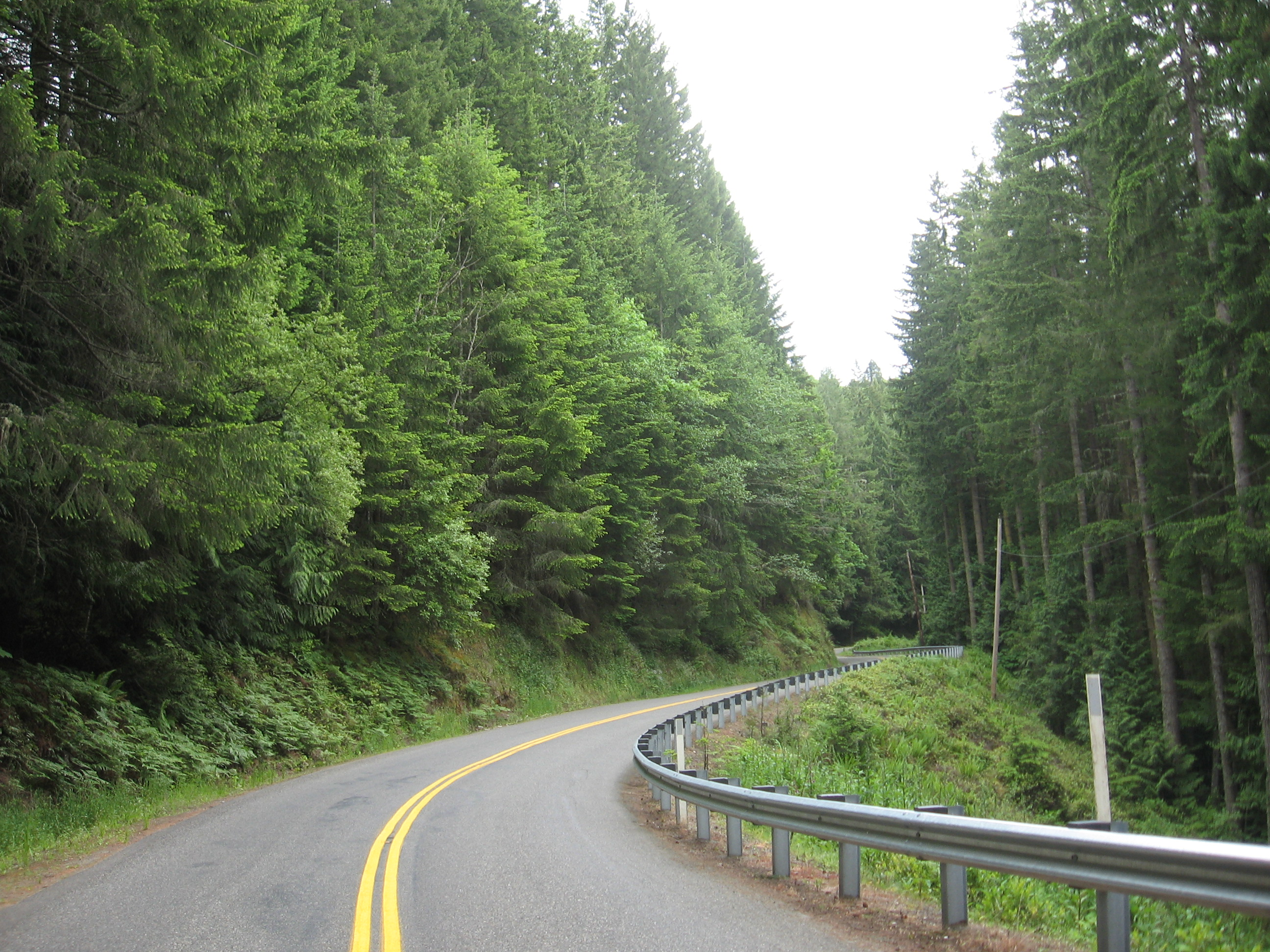 SR165 near the small town of Wilkeson, Washington.